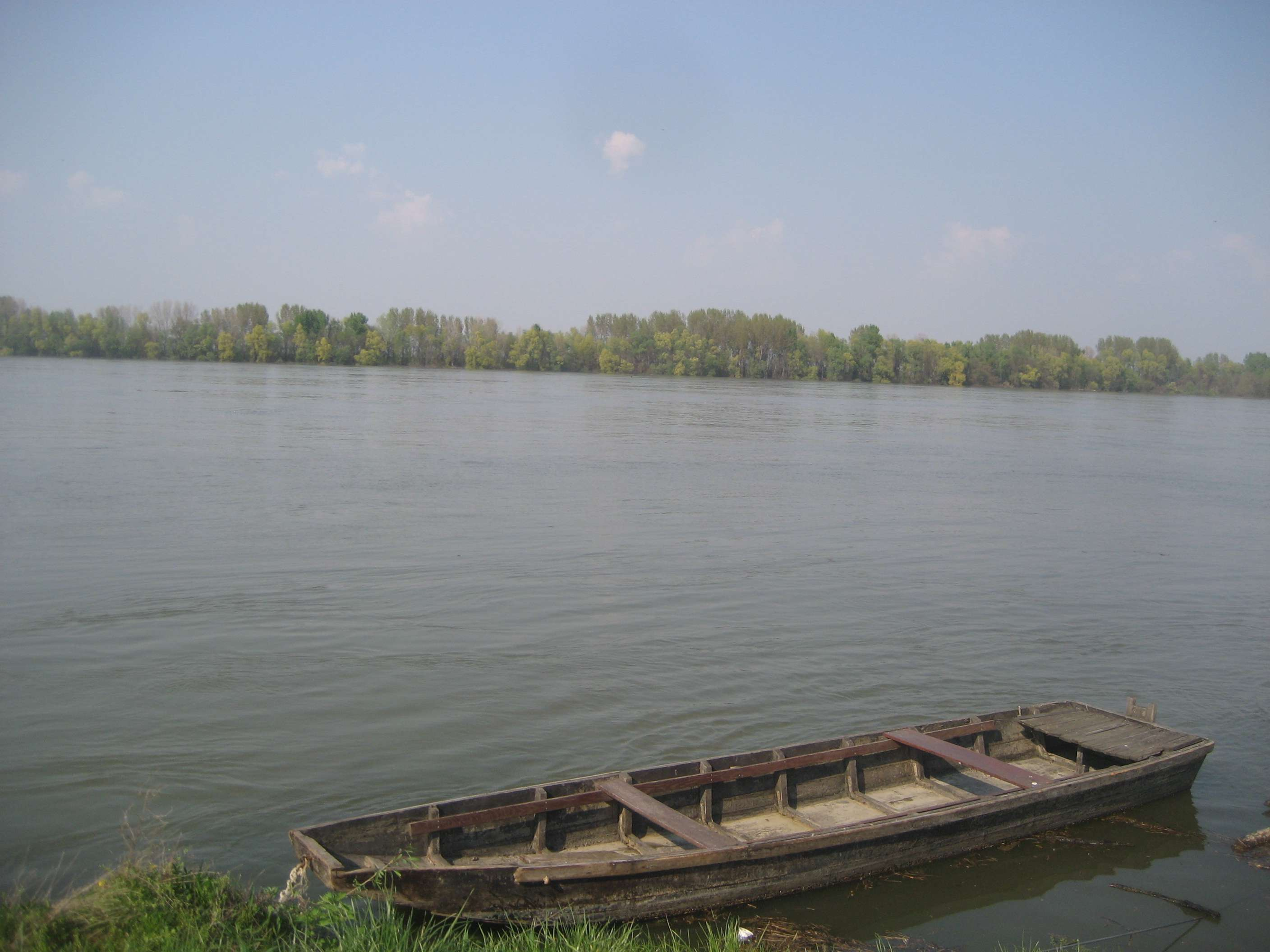 Danube in Sarengrad